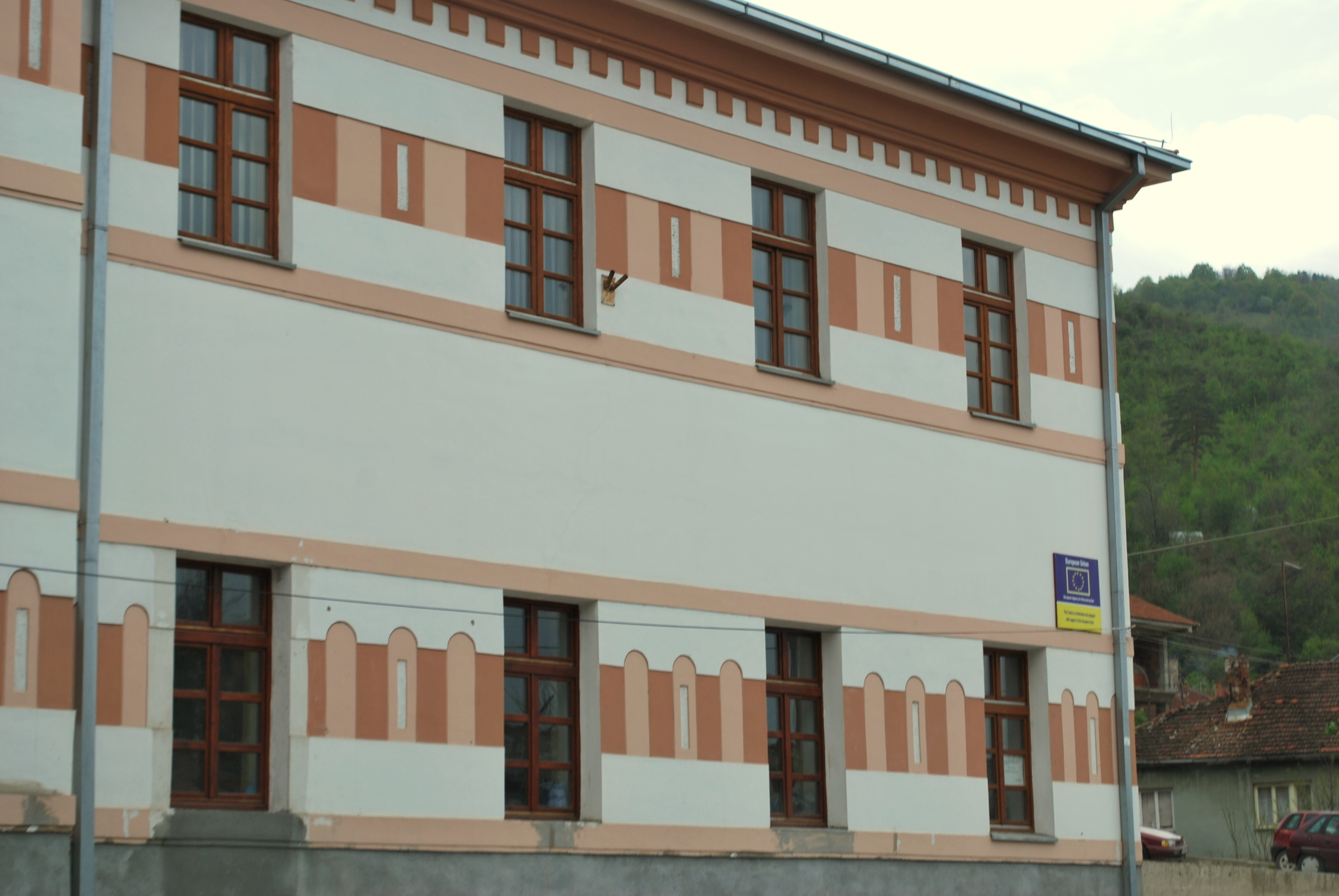 Kriva Palanka City Museum.